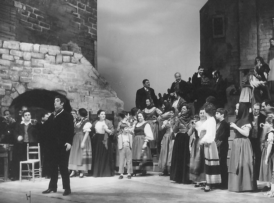 Tenor Pietro Fongaro in Cavalleria Rusticana